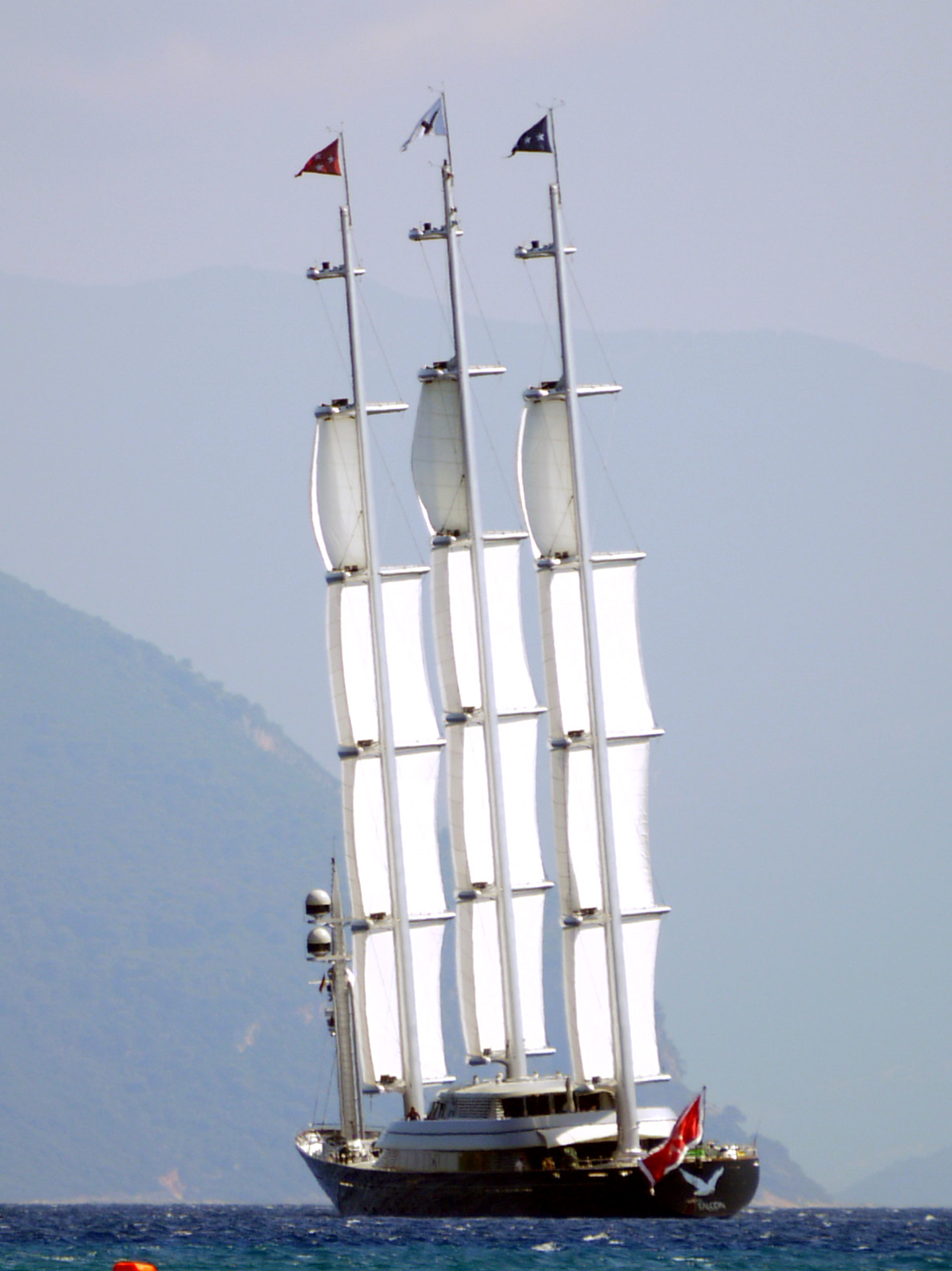 Maltese Falcon, moving out. The Maltese Falcon is a clipper sailing luxury yacht owned by American venture capitalist Tom Perkins. It is one of the largest privately-owned sailing yachts in the world at 88 m (290 ft) You really have to see it to realise how big it is, I sailed my Laser right up to it, and it is like a floating row of houses. for more info visit